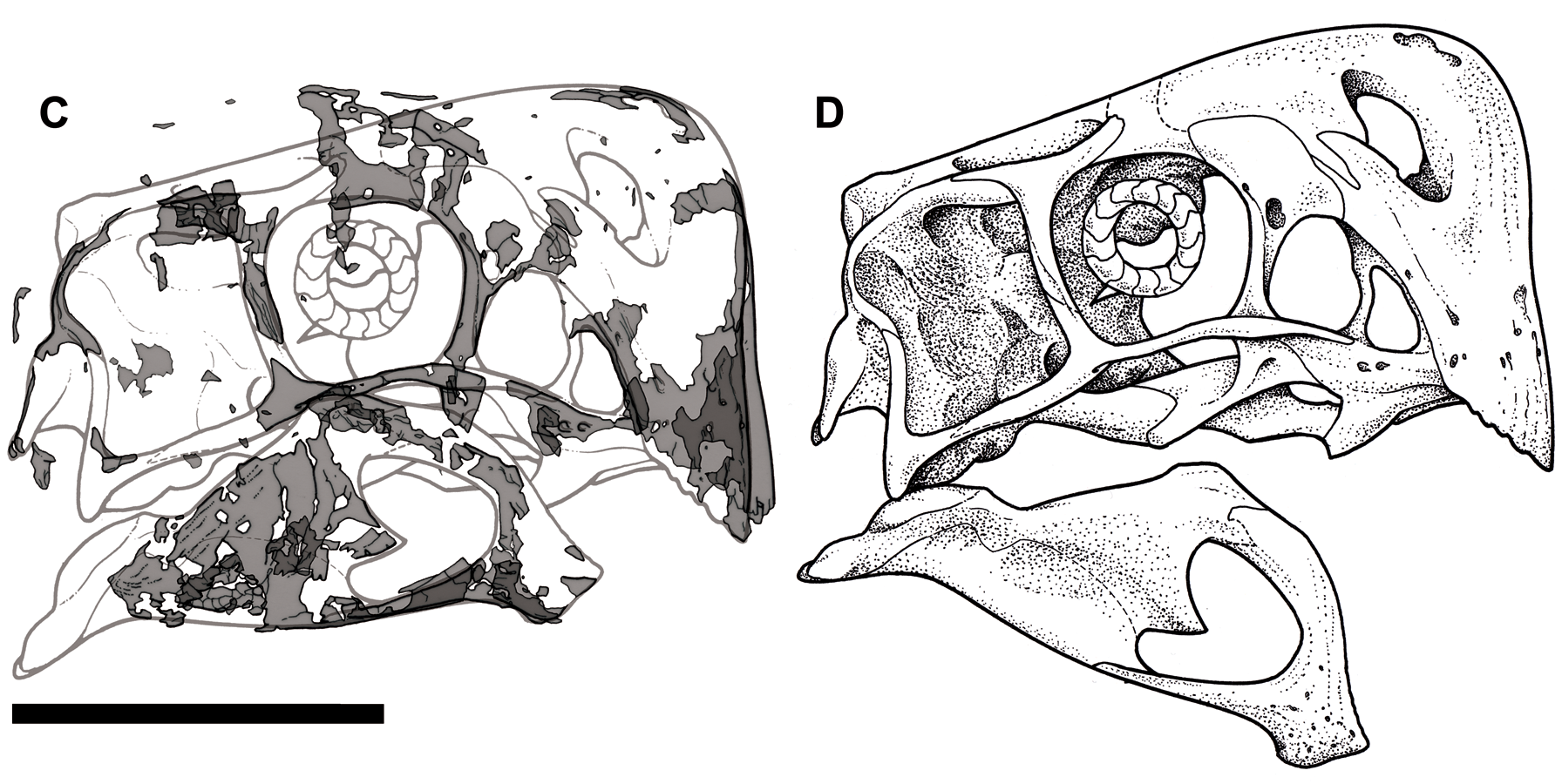 Reconstructed skull of Nemegtomaia barsboldi (MPC-D 107/15). Scale bar 10 cm. C, reversed elements of the left side superimposed to those of the right side (where elements of both sided overlap, the grey is darker); D, reconstruction of the skull.